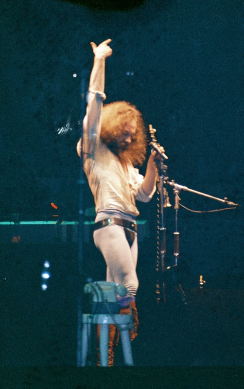 Singer Ian Anderson from Jethro Tull - September, 1973 Chicago Stadium - the "Passion Play" tour